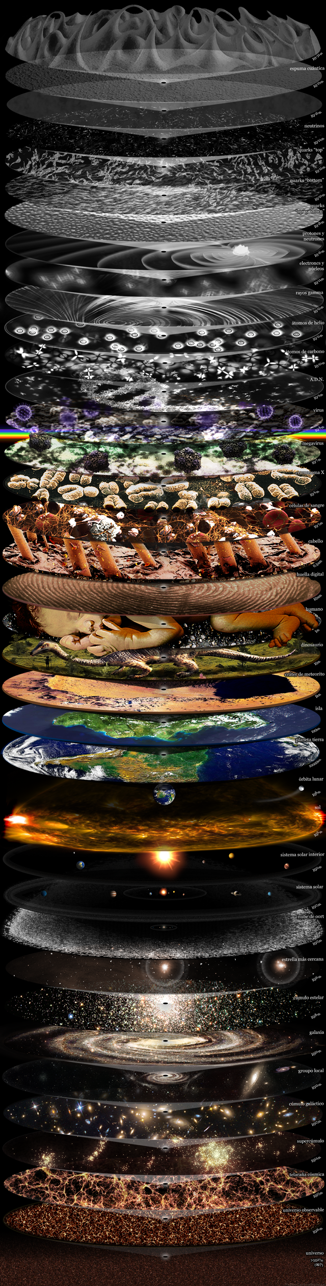 Escenas y objetos ejemplo de diferente orden de magnitud. A los 10-32 m se cree que existe una espuma de espaciotiempo retorcido (espuma cuántica). 10-24 m radio de la sección transversal de un neutrino 1 MeV. 10-22 m Top Quark, el quark más pequeño. 10-20 m Quarks Bottom y Charm. 10-18 m Quarks arriba y abajo. 10-16 m Protones y neutrones. 10-14 m Electrones y núcleos. 10-12 m Longitud de onda más larga de los rayos gamma. 10-11 m Radio de los atomos de hidrógeno y helio. 10-10 m Radio de los átomos de carbono. 10-9 m Diámetro de la hélice del ADN. 10-8 m Virus más pequeño (Circovirus porcino). 10-7 m El virus más grande (Megavirus). 10-6 m Cromosoma X. 10-5 m Tamaño típico de un glóbulo rojo. 0.1mm Anchura del pelo humano. 10mm Ancho de un dedo humano adulto. 1m Altura de un ser humano infante. 10m Argentinosaurus es el dinosaurio más grande descubierto hasta ahora (30 a 35 metros). La figura humana es para la comparación. En realidad, los humanos y los dinosaurios no vivían al mismo tiempo. 1km Diámetro del cráter Barringer en el desierto del norte de Arizona (1186m). 100km Isla de Jamaica (235 km de largo). 10000km Diámetro del planeta Tierra (12.742 km). 108 m La órbita de la Luna (770.000km). 109 m Diámetro del Sol (1391400km). 1011 m Diámetro del Sistema Solar interior. (600.000.000 km). 1013 m Diámetro del Sistema Solar. 1015 m Límite exterior de la Nube de Oort. 1016 m Distancia a Alpha Centauri. 1018 m Cúmulo globular Messier 13. 1020 m Diámetro de la Galaxia Vía Láctea. 1022 m Grupo local de galaxias incluyendo Vía Láctea, M31 (Andromeda), M33, SMC, LMC y galaxias más pequeñas. 1023 m Clúster típico de galaxias (2 a 10 Mpc). 1024 m Supercúmulo de galaxias Laniakea (160 Mpc). 1025 m Fin de la Grandeza (estructura "red cósmica"). 1026 m Diámetro de la esfera del universo observable. El universo entero es más grande que 1027 m y posiblemente infinito.